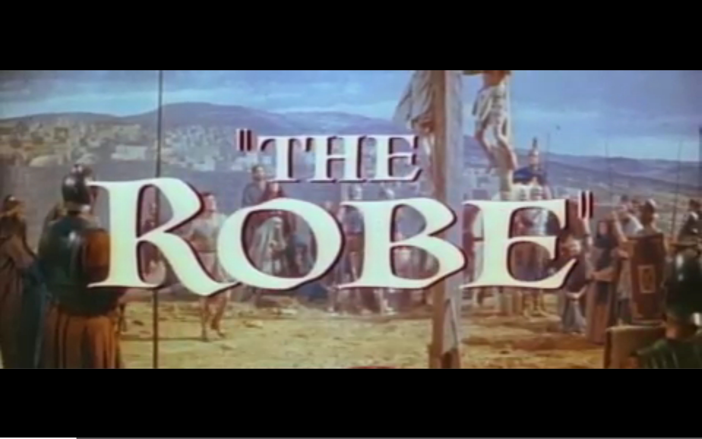 Trailer Screenshot of The Robe (1953).